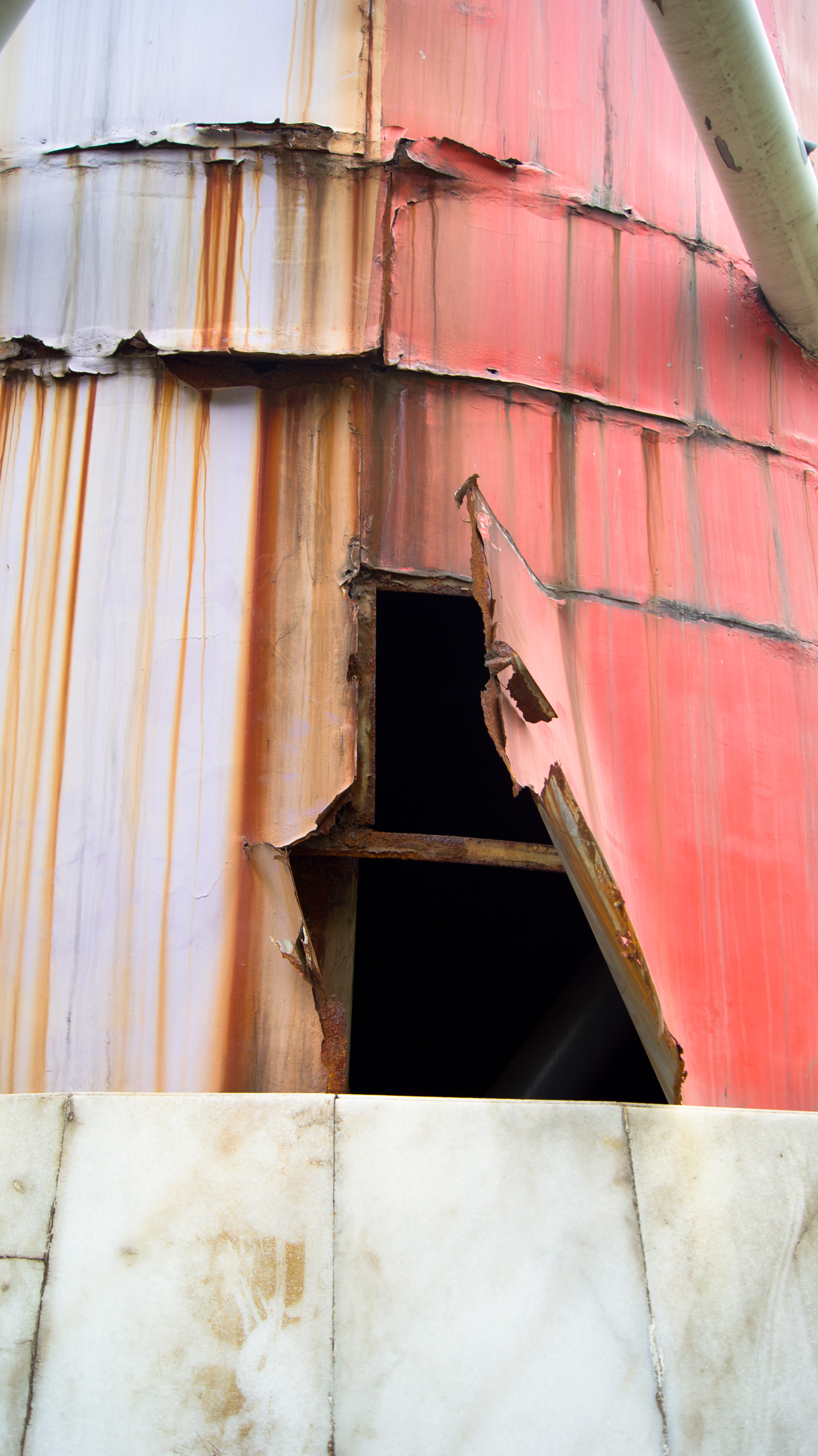 Damage on Shunde Rainbow Bridge